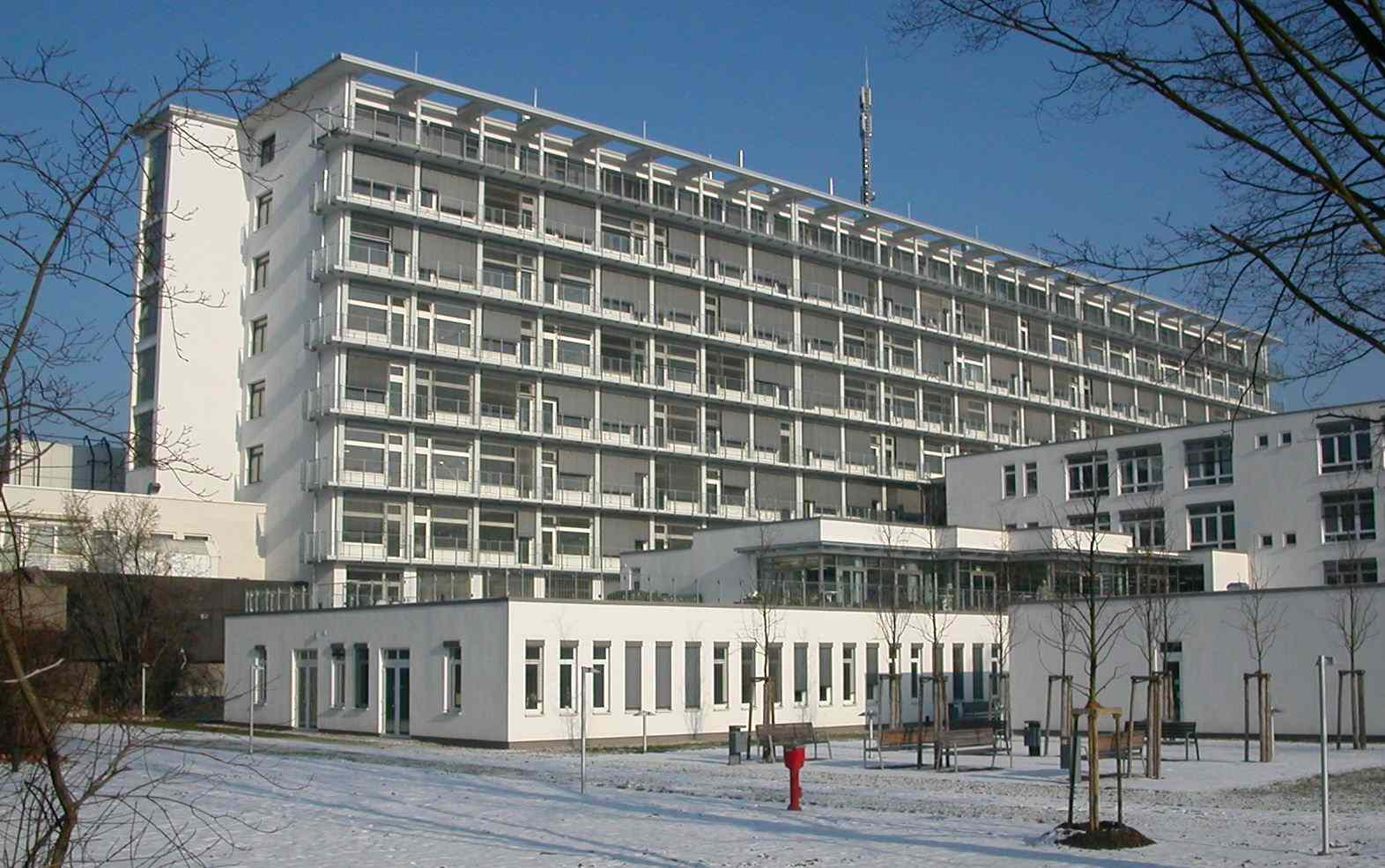 Mannheim - Diakonie-hospital